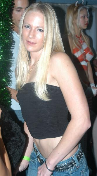 Aaliyah Jolie at LA Direct Model's Party, Dec 19, 2005